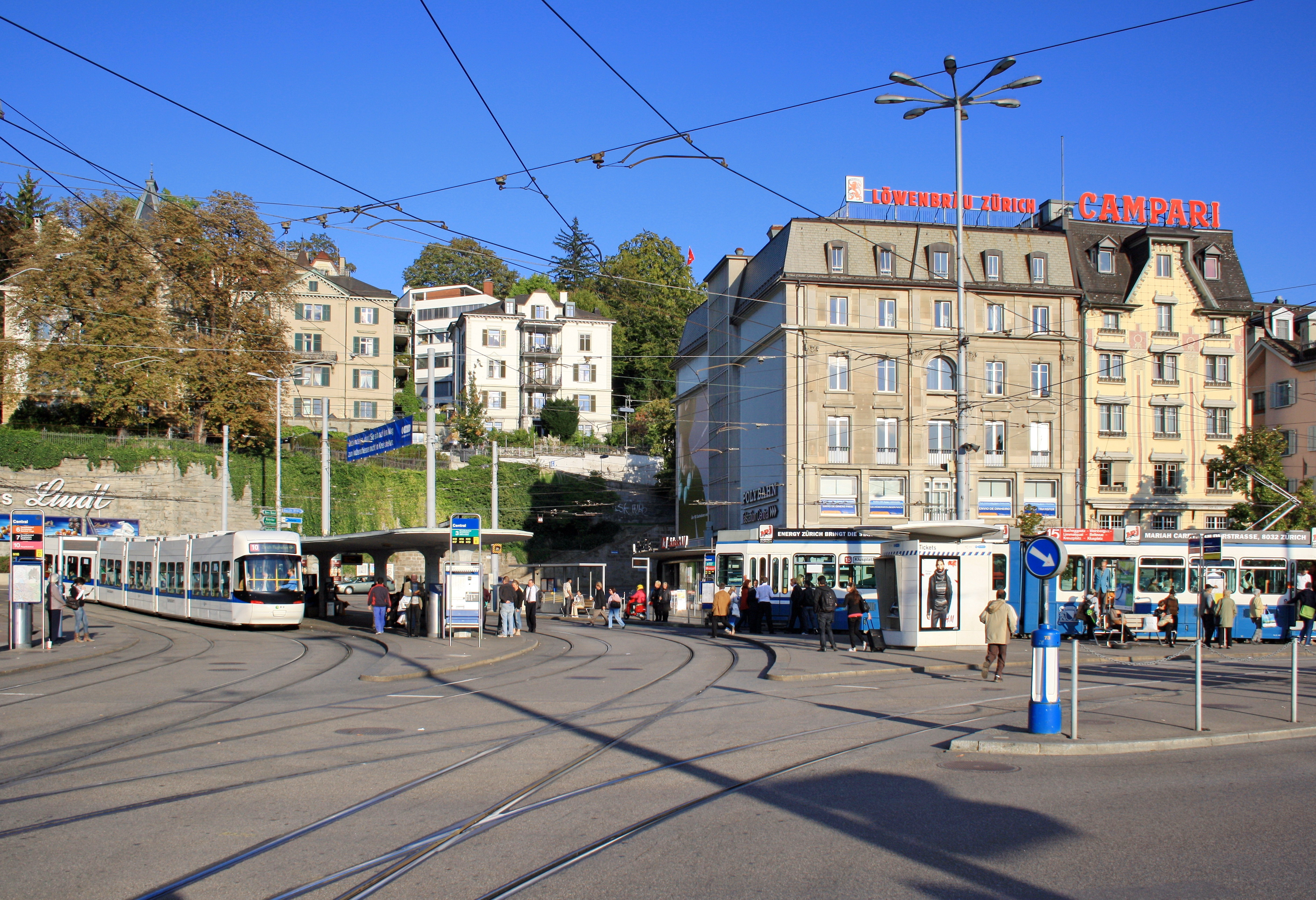 Central in Zürich (Switzerland), as seen from Bahnhofbrücke, Limmatquai to the right, Polybahn building in the background.